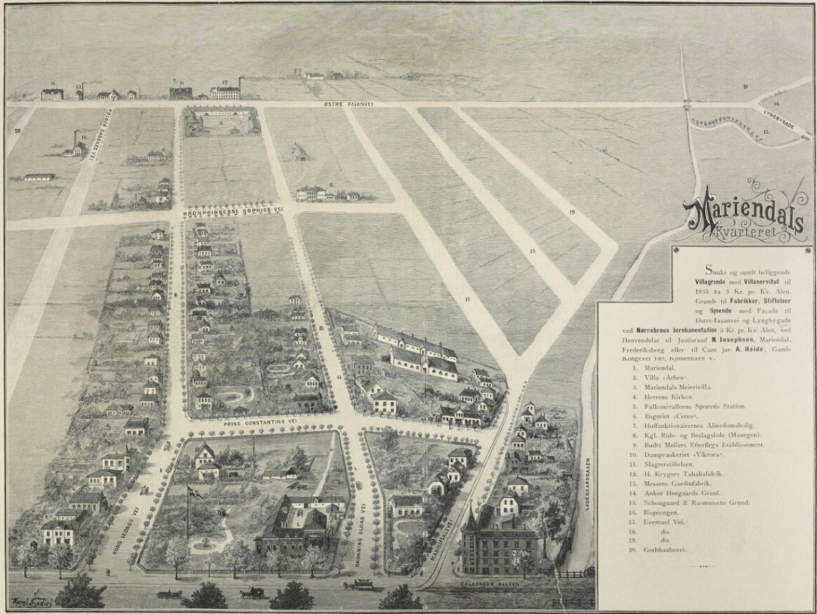 A bird's eye spective of the new Mariendal Quarter in Frederiksberg, Copenhagen, Denmark